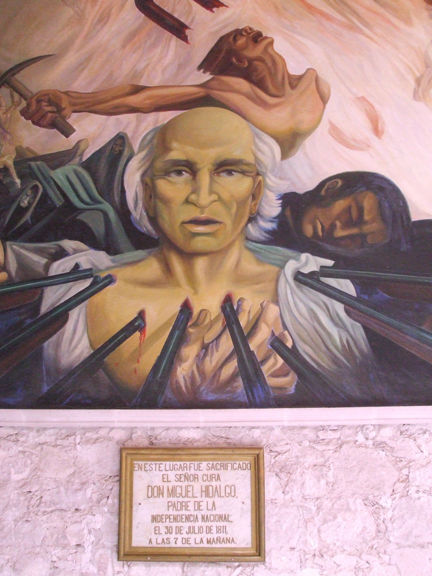 Panel of Government Palace mural depicting Hidalgo execution in Chihuahua. It is situated next to the spot where Hidalgo was killed.